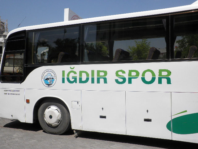 Iğdırspor bus